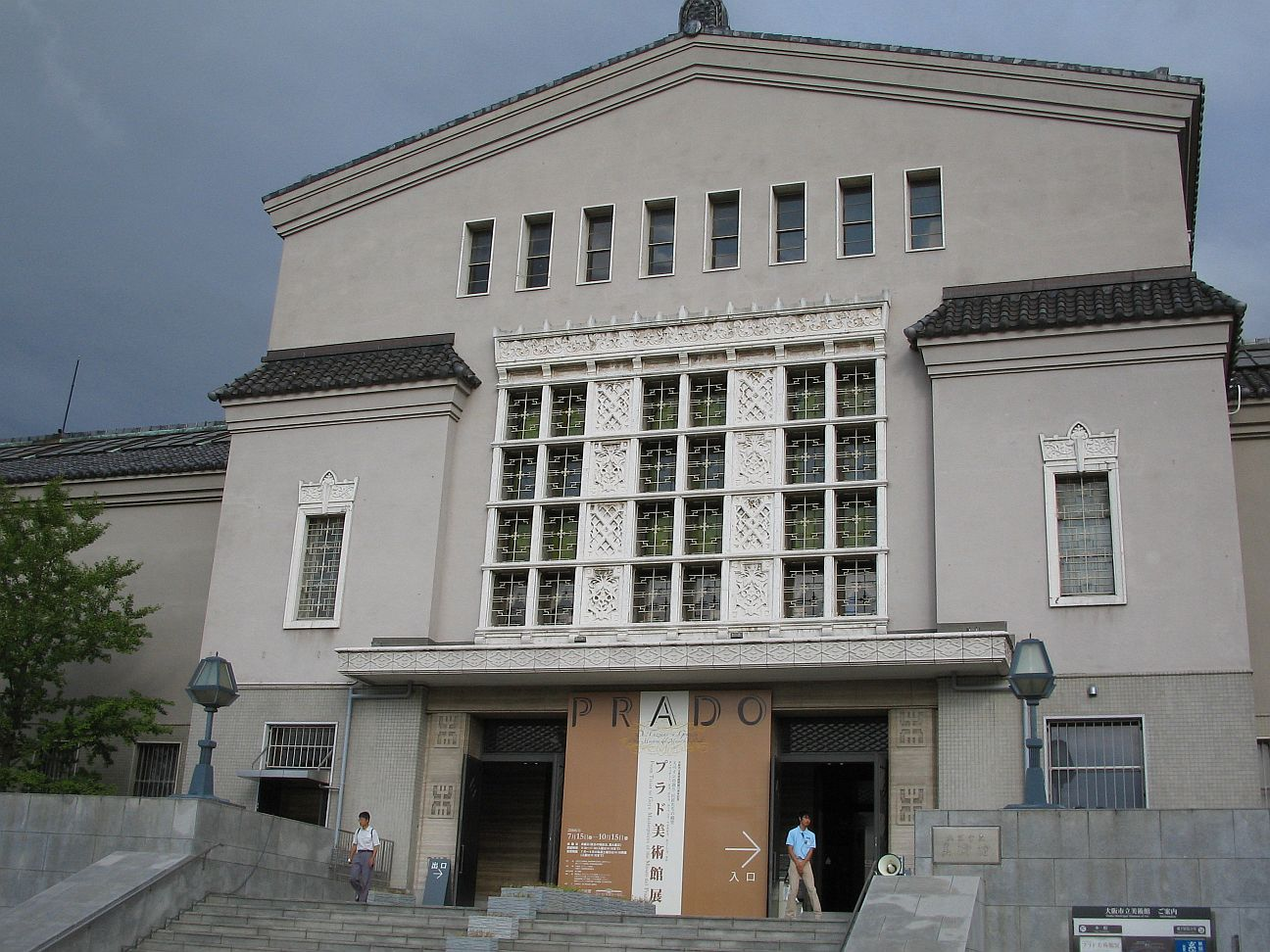 大阪市立美術館 (Osaka Municipal Museum of Art)